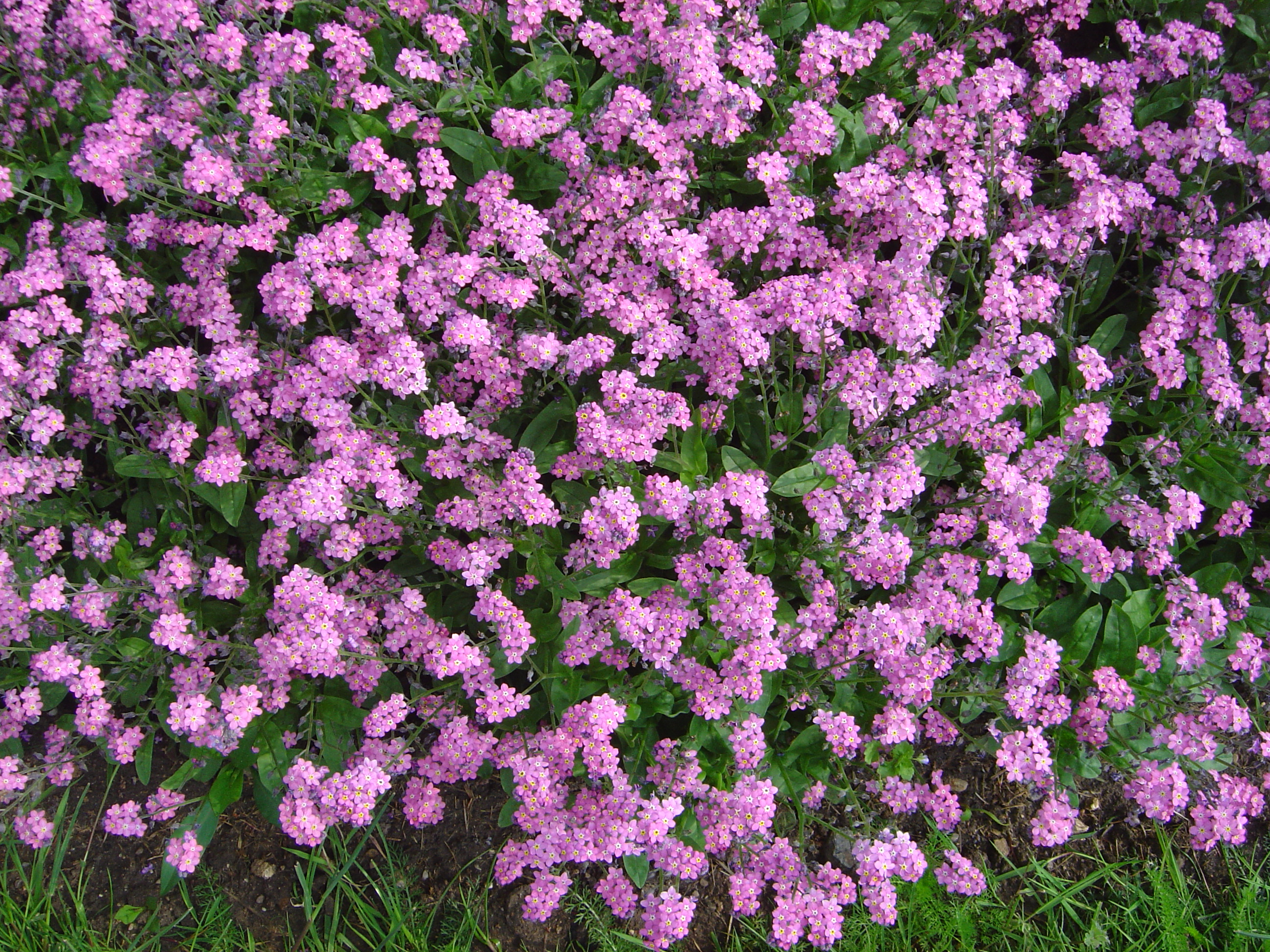 Myosotis sylvatica (Hoffm.) 'Rosylva' En: Photograph taken at the Jardin des Plantes in Paris, France Fr: Photographie prise au Jardin des Plantes à Paris, France